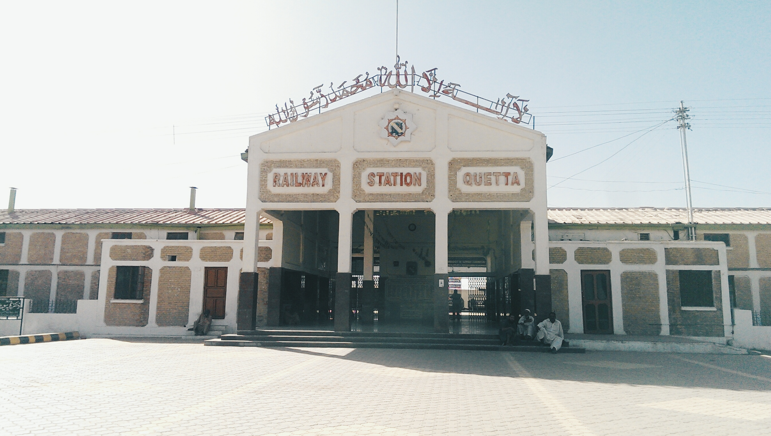 Railway Station This is a photo of a monument in Pakistan identified as the BA-U-35